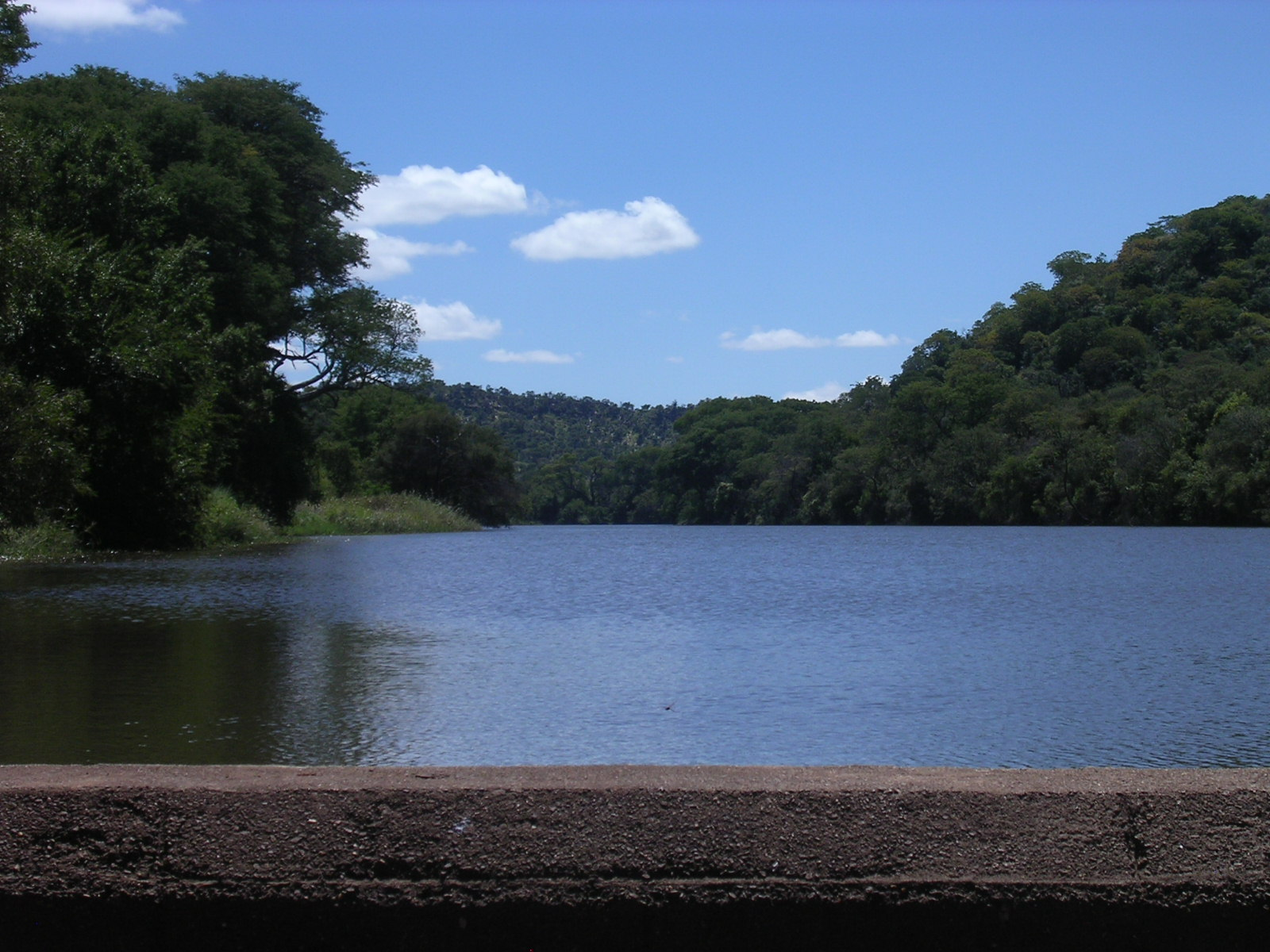 Insiza River at Croft Weir, Zimbabwe